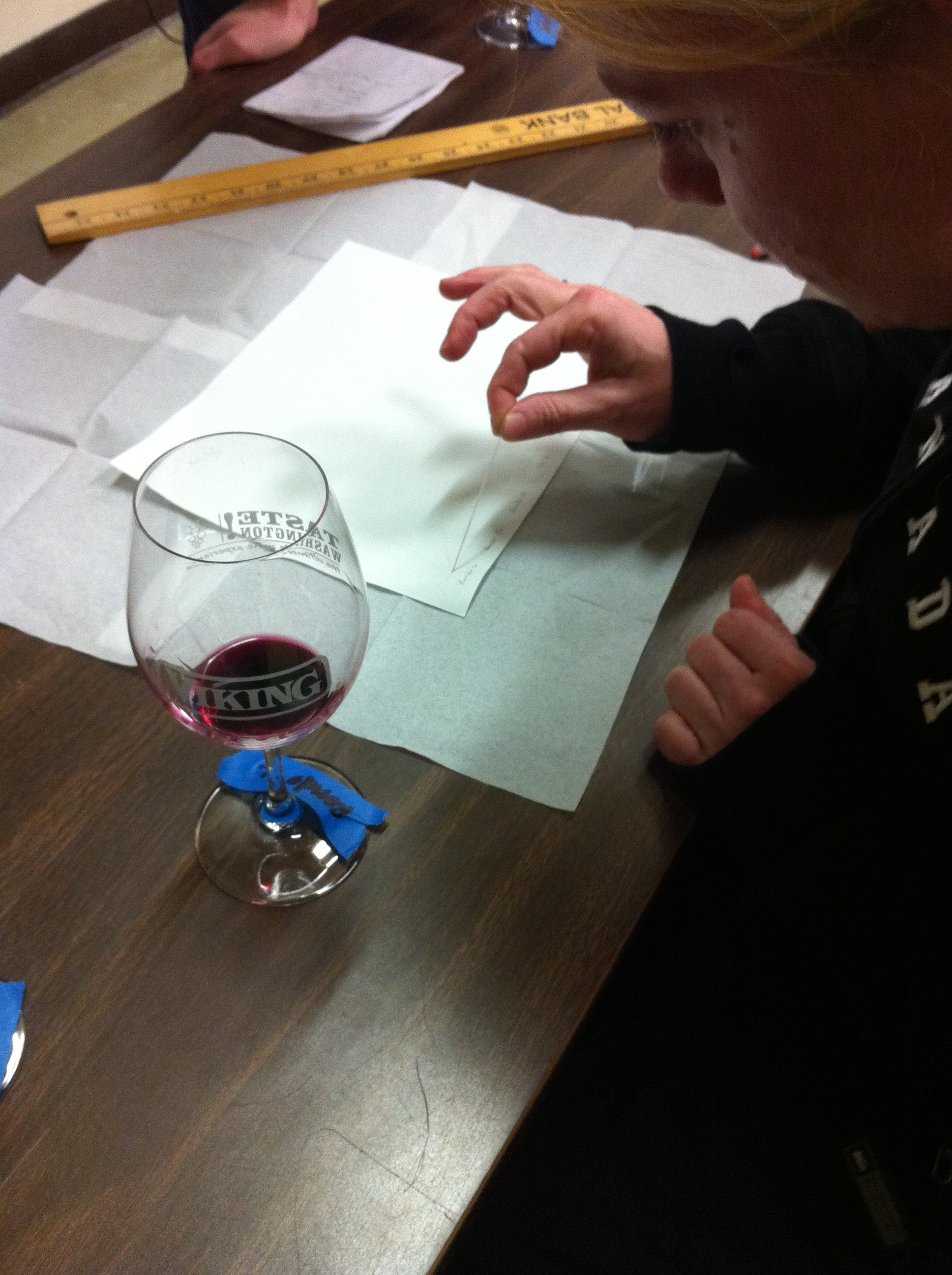 Spotting a wine sample on super absorbent paper to see if malolactic fermentation has run through completion